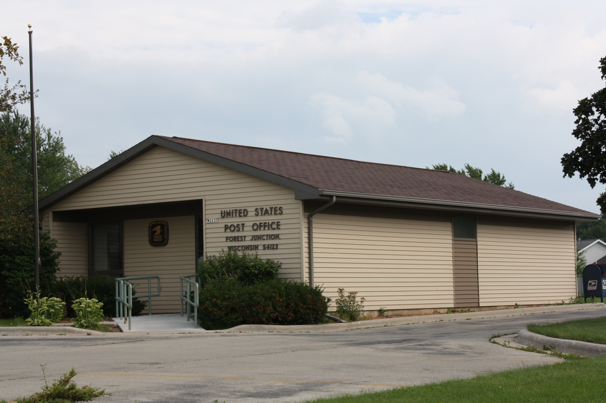 The U.S. post office for Forest Junction, Wisconsin along U.S. Route 10.